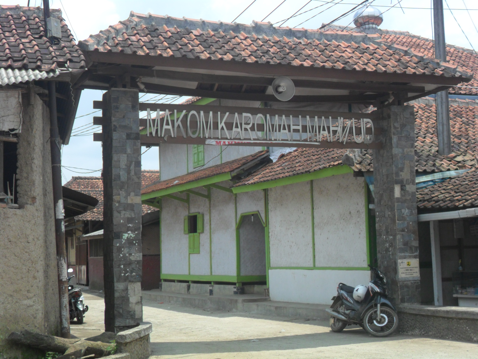 Gerbang Kampung Mahmud, Bandung